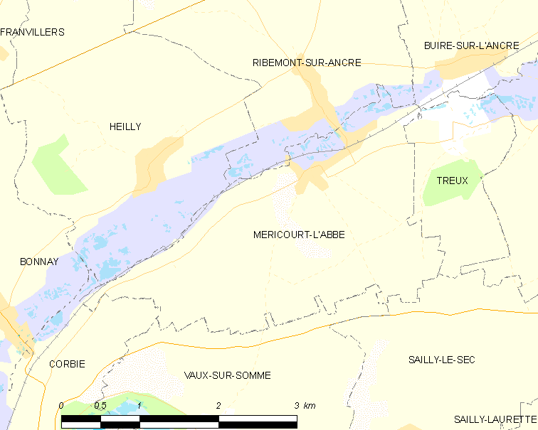 Map of French municipality Méricourt-l'Abbé